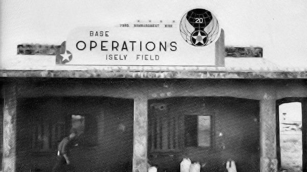 Airfield Operations, 500th Bomb Group, Saipan, 1945